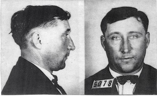 Mug shot of murderer Harry Powers taken in 1920 by the Dayton, Ohio police